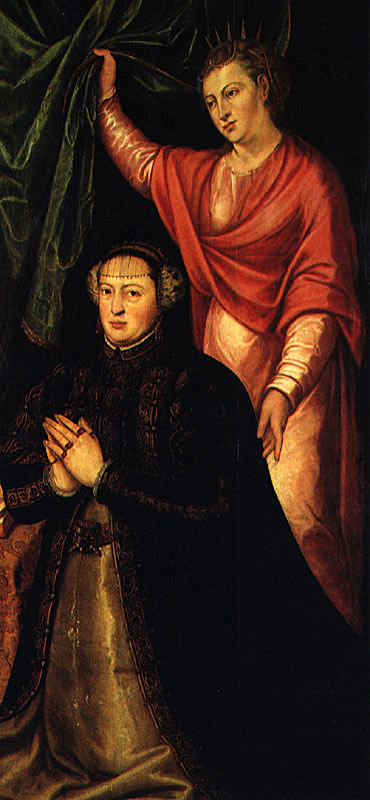 Queen Catherine of Portugal (=Catherine of Habsburg; wife of King John III) and St. Catherine of Alexandria